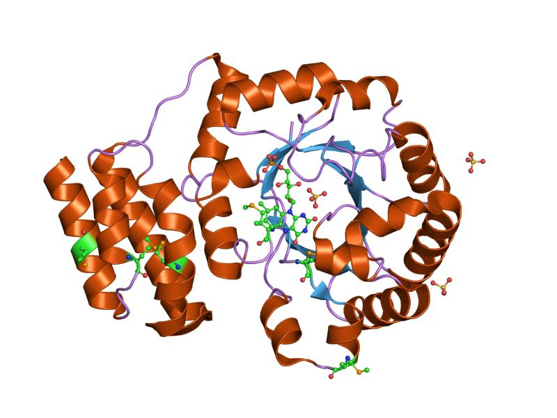 Cartoon representation of the molecular structure of protein registered with 1vhn code.